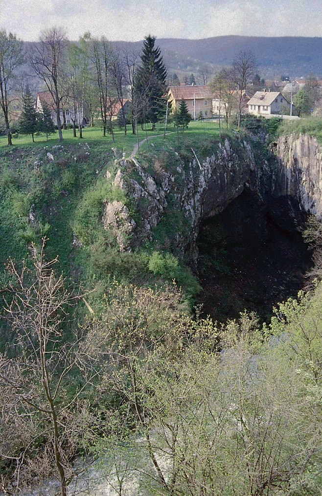 Djula's Abyss or Đula's Ponor in springtime, Ogulin, Croatia.